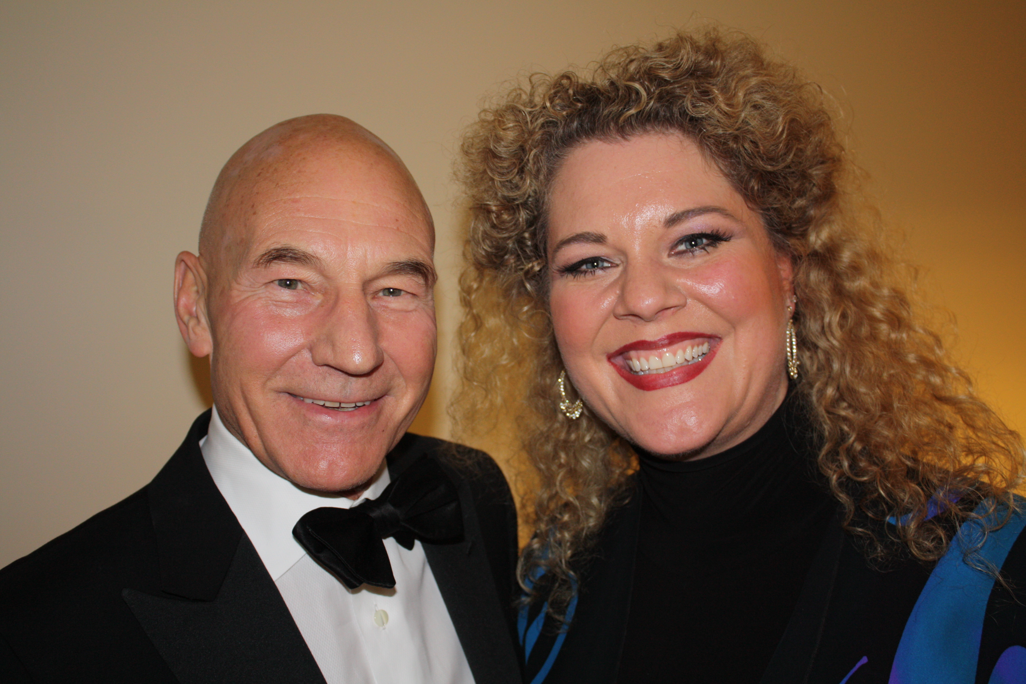 Michelle DeYoung (Jacosta) and Sir Patrick Stewart (Narrator) following a performance of Igor Stravinsky's Oedipus Rex with the Chicago Symphony Orchestra in January 2010.